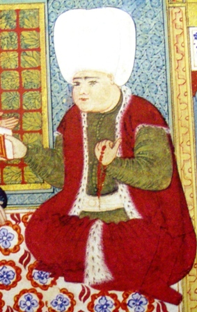 An Ottoman miniature about Gürcü Mehmed Pasha. He was an Ottoman statesman. He was Grand Vizier of the Ottoman Empire between September 27, 1651-June 20, 1652